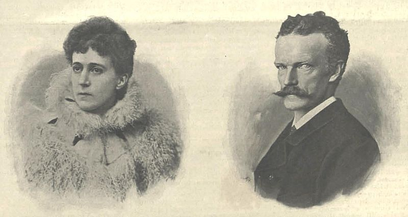 Duke Karl-Theodor in Bavaria and Maria Josepha of Portugal